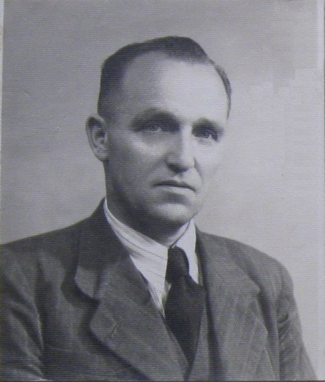 Karel Prokop (1893 - 1943). During the First World War he was a member of the Czechoslovak legions in Russia. During the protectorate he was a chief inspector of the Tax Office and excise taxes and he was also leader of resistance group in Prague (Jinonice) and also he was a deputy commander of an illegal group Vašek-Čeněk. After the gestapo made an attack on the Jinonice excise duty office (4 October 1941) he went underground and he hid himself in around Pilsen, where he used false documents in the name of "Karel Kropáček". Arrested by the Gestapo, July 4, 1942 in Pilsen - Skvrňany. Executed to death on September 8, 1943 in the prison in Berlin-Plötzensee. Foto from 1941: Karel Prokop alias Karel Kropáček.